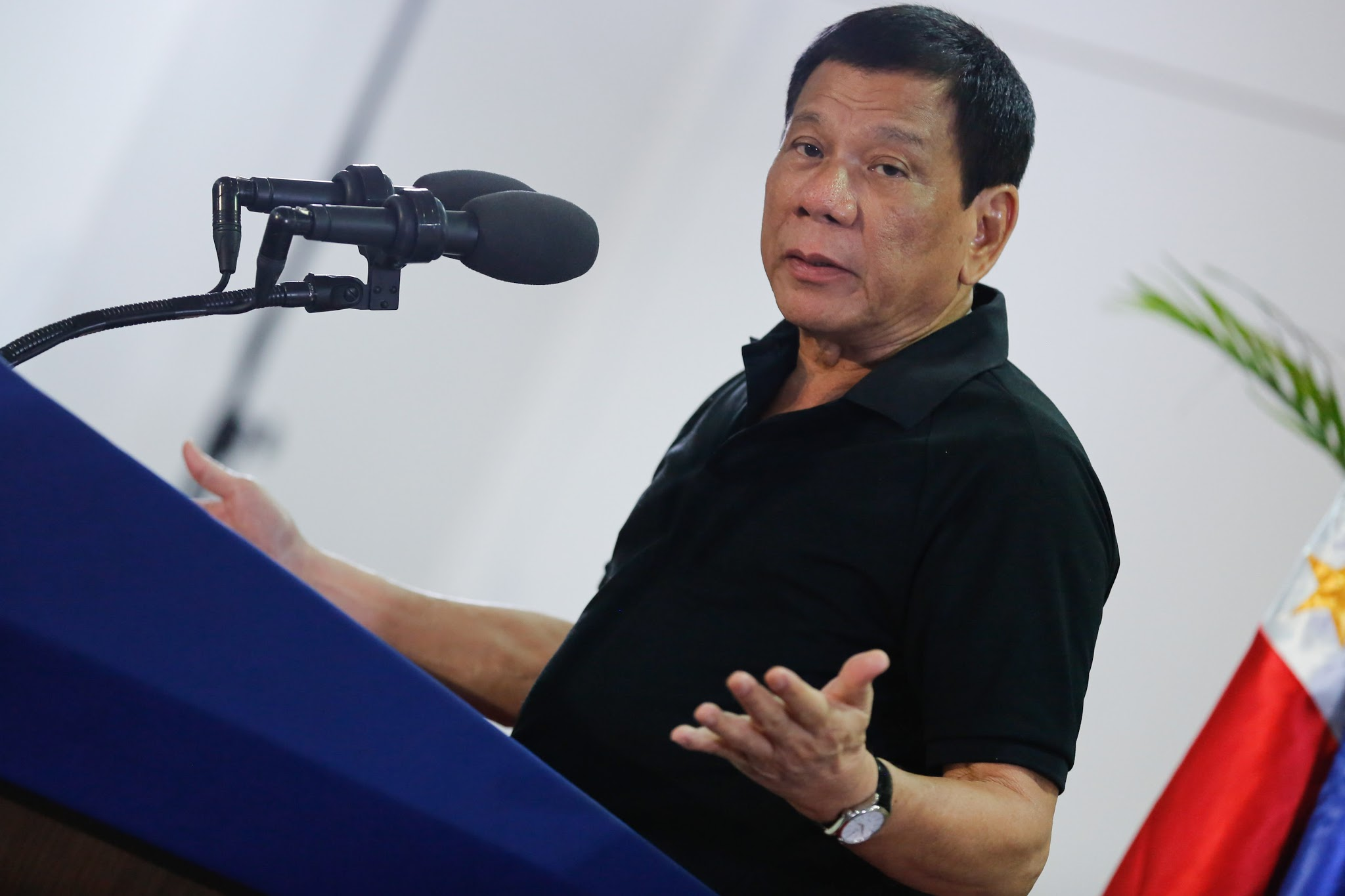 President Rodrigo Duterte delivers a message upon his arrival at the Francisco Bangoy International Airport in Davao City on September 30. TOTO LOZANO/PPD